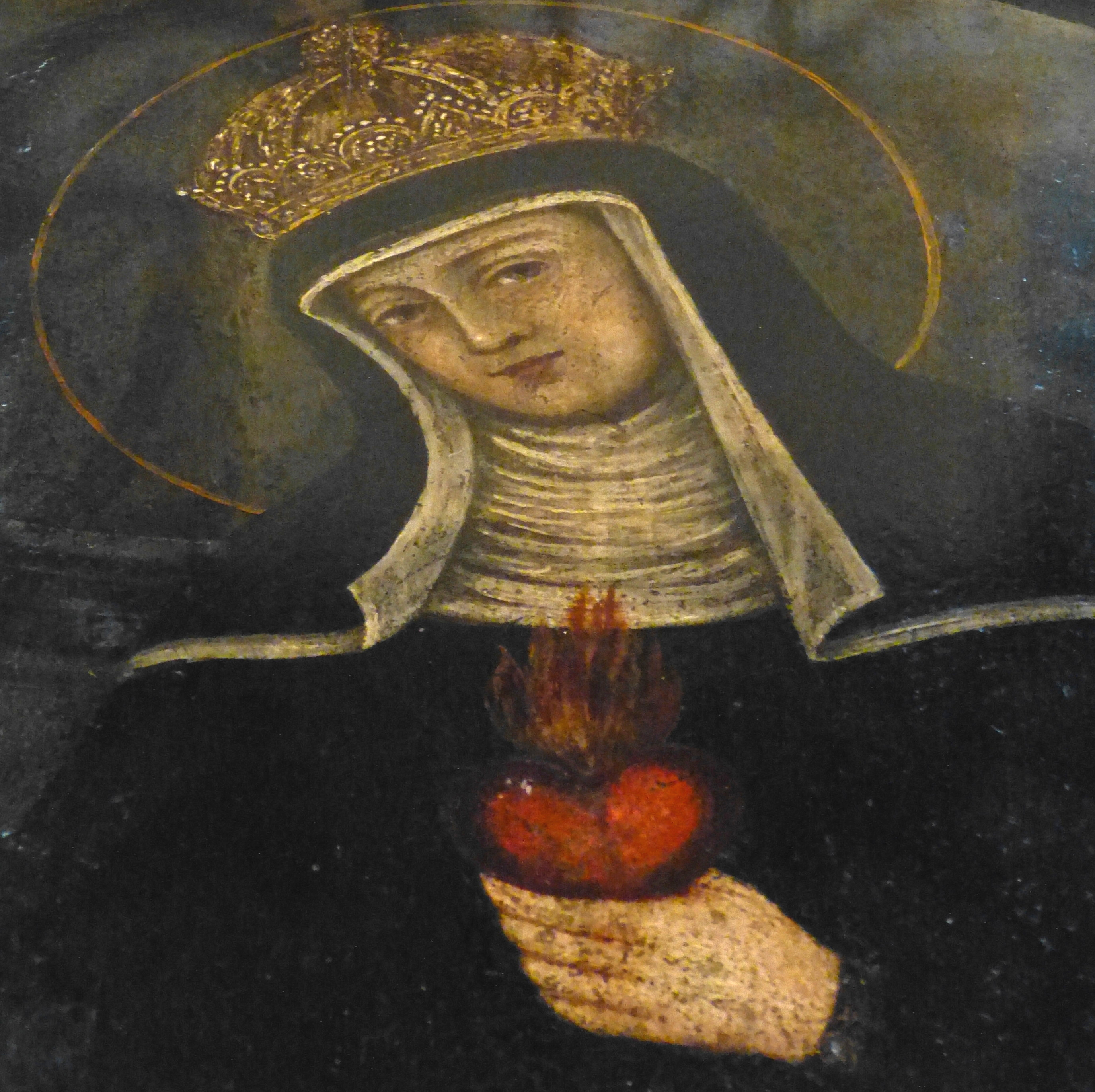 Frauenchiemsee abbey ( Upper Bavaria ). Minster:: Painting ( 1641 ) of the beatified abbess Irmengard of Frauenchiemsee at her grave.